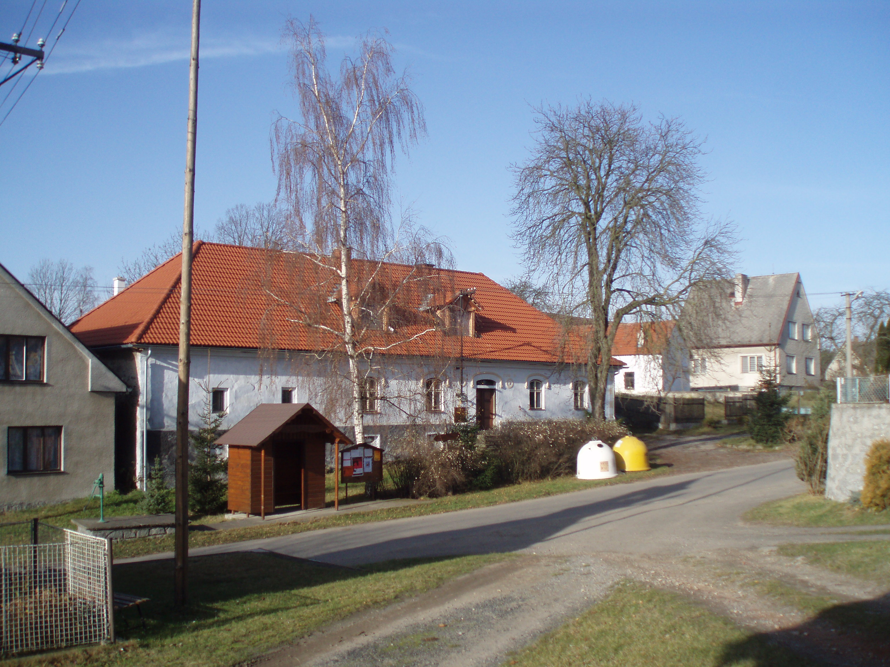 Village square of Dobrosov (Hrazany)